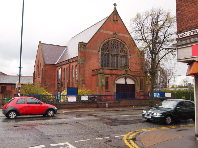 Nottingham - NG3, Data from Geograph: Description: A view across Woodborough Road (B684) from Eaton Street featuring Mapperley Methodist Church. The church occupies a prominent position in this neighbourhood, known is locally as "Mapperley Top". Behind the tree another... more ICBM: 52.98150002439, -1.127457797316 Location: 3 km from Arnold, Nottinghamshire, Great Britain.